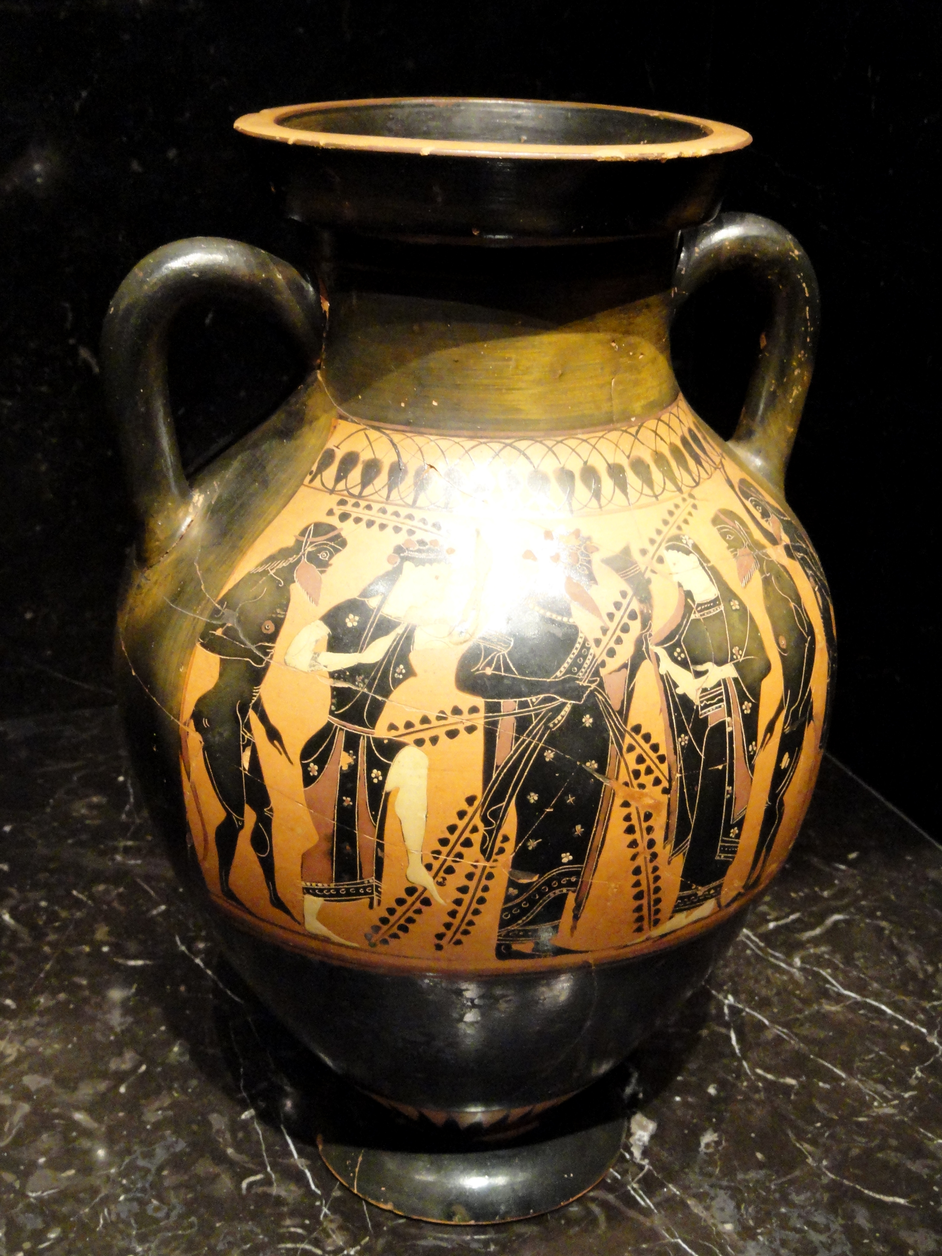 Exhibit in the Nelson-Atkins Museum of Art, Kansas City, Missouri, USA. ; I took this photograph and release it into the public domain.